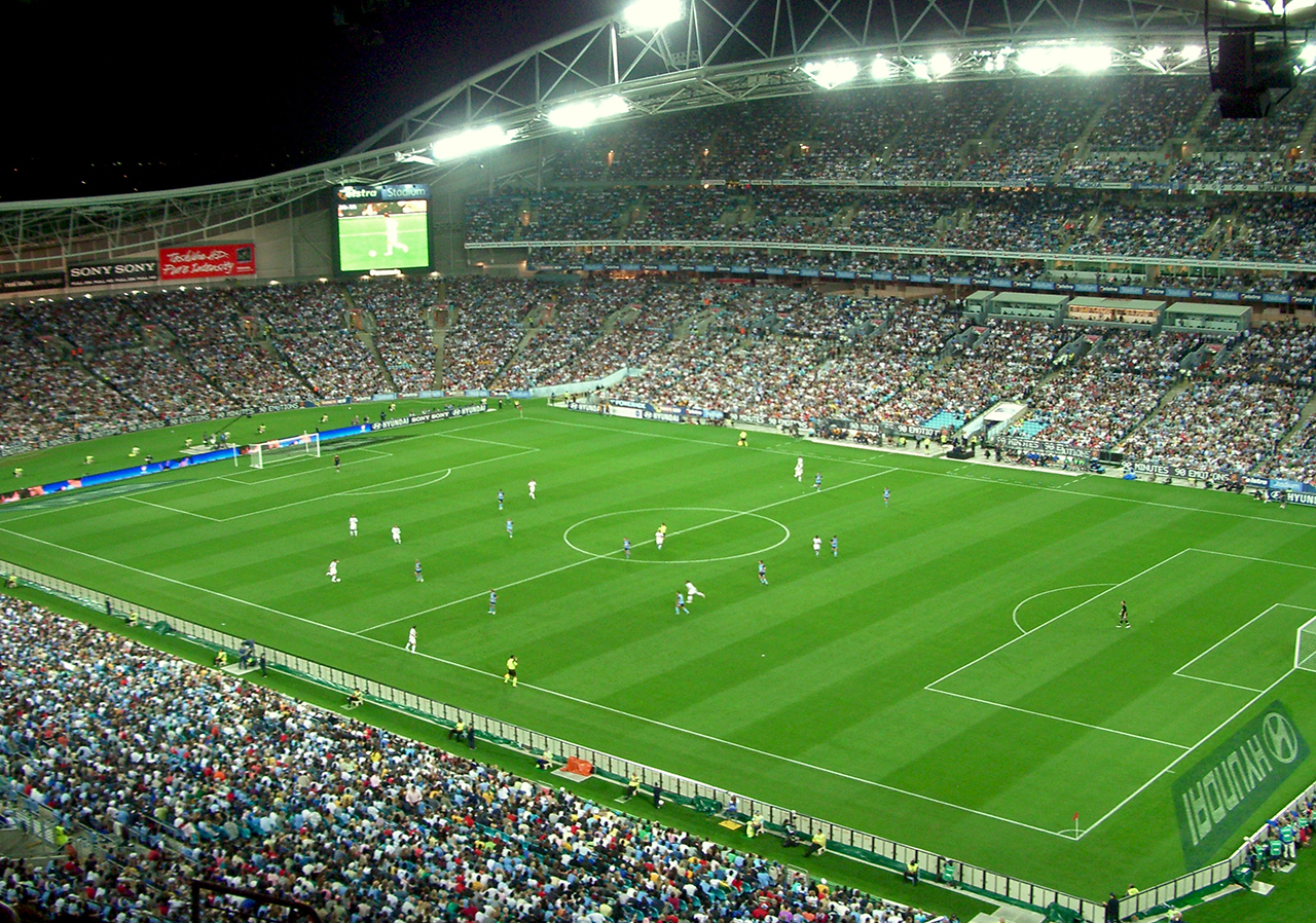 Assdiciation football match at Stadium Australia (former Olympic Stadium), Sydney, between Sydney FC and LA Galaxy (5-3) on 27 November 2007 with a sell-out crowd of 80,295.